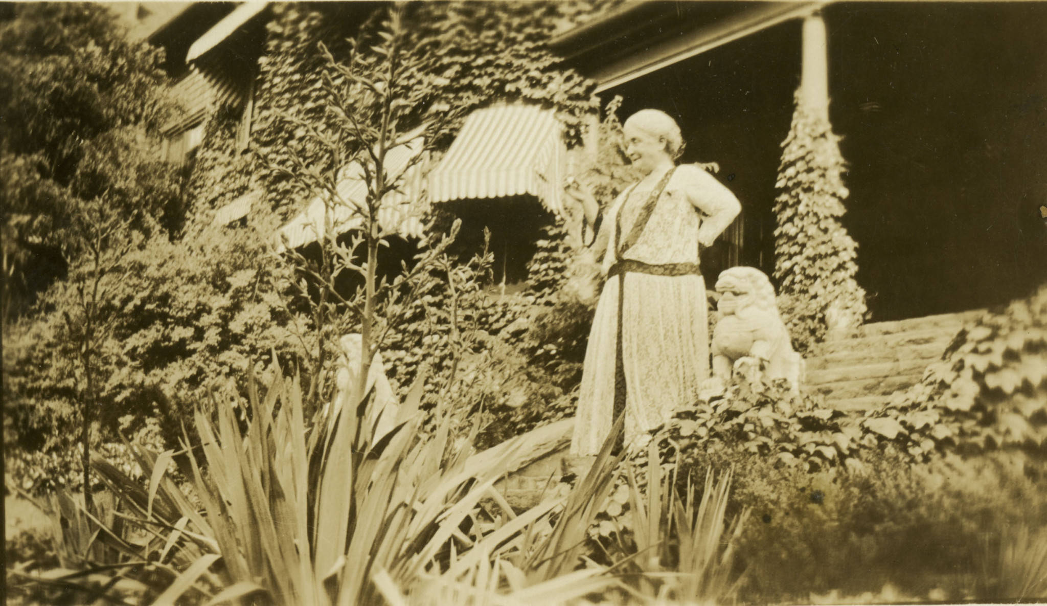 M. Carey Thomas on the steps of the Deanery